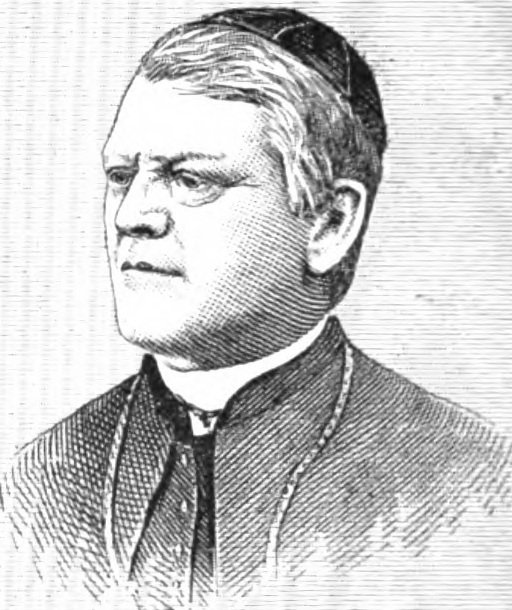 An image of Bishop Francis Xavier Krautbauer.